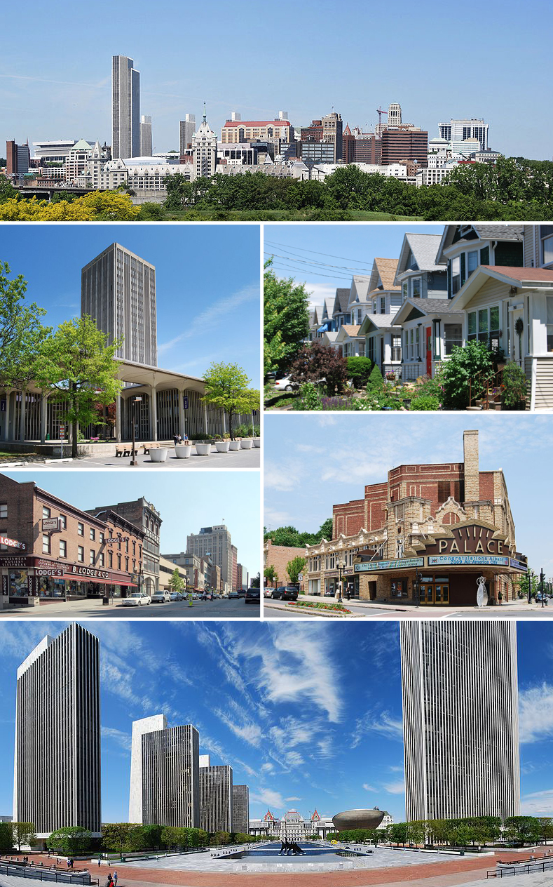 Compilation image of Albany, New York, United States. Clockwise from top: Albany skyline from Rensselaer; suburban housing in the Helderberg neighborhood; Palace Theatre; Empire State Plaza from the Cultural Education Center; North Pearl Street at Columbia Street; and the State Quad at SUNY Albany.